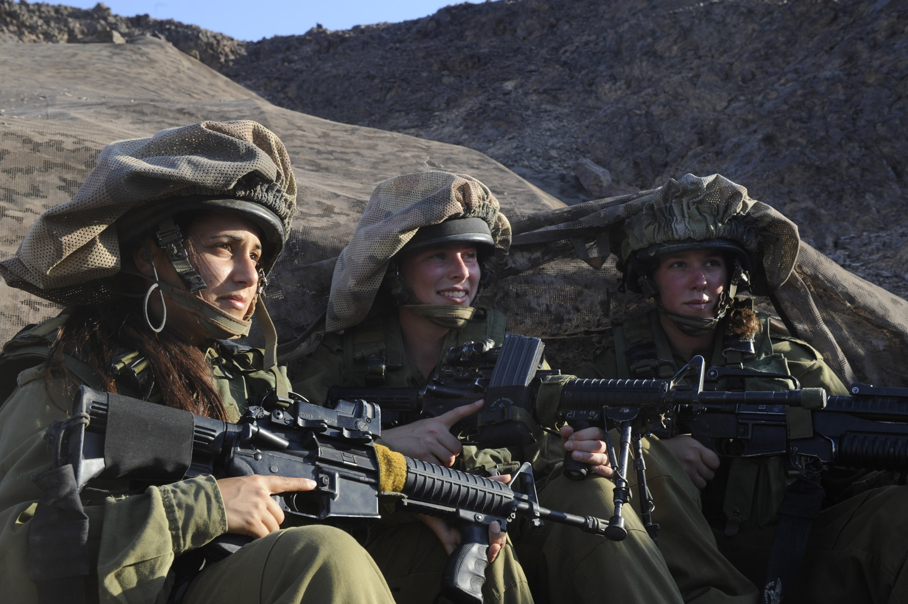 November 2011 Female combat soldiers of the field intelligence company "Nachshol" are stationed along the southern Israeli border. Due to the increased tension in the area, a unique exercise was conducted in the beginning of November, practicing clashes with terrorists, storming at targets, and high-level camouflage, while confronted with mock explosives simulating real bombs. Click here to take a look into the life of female field intelligence combat soldiers The Israel Defense Forces Facebook page The Israel Defense Forces blog Follow us on Twitter